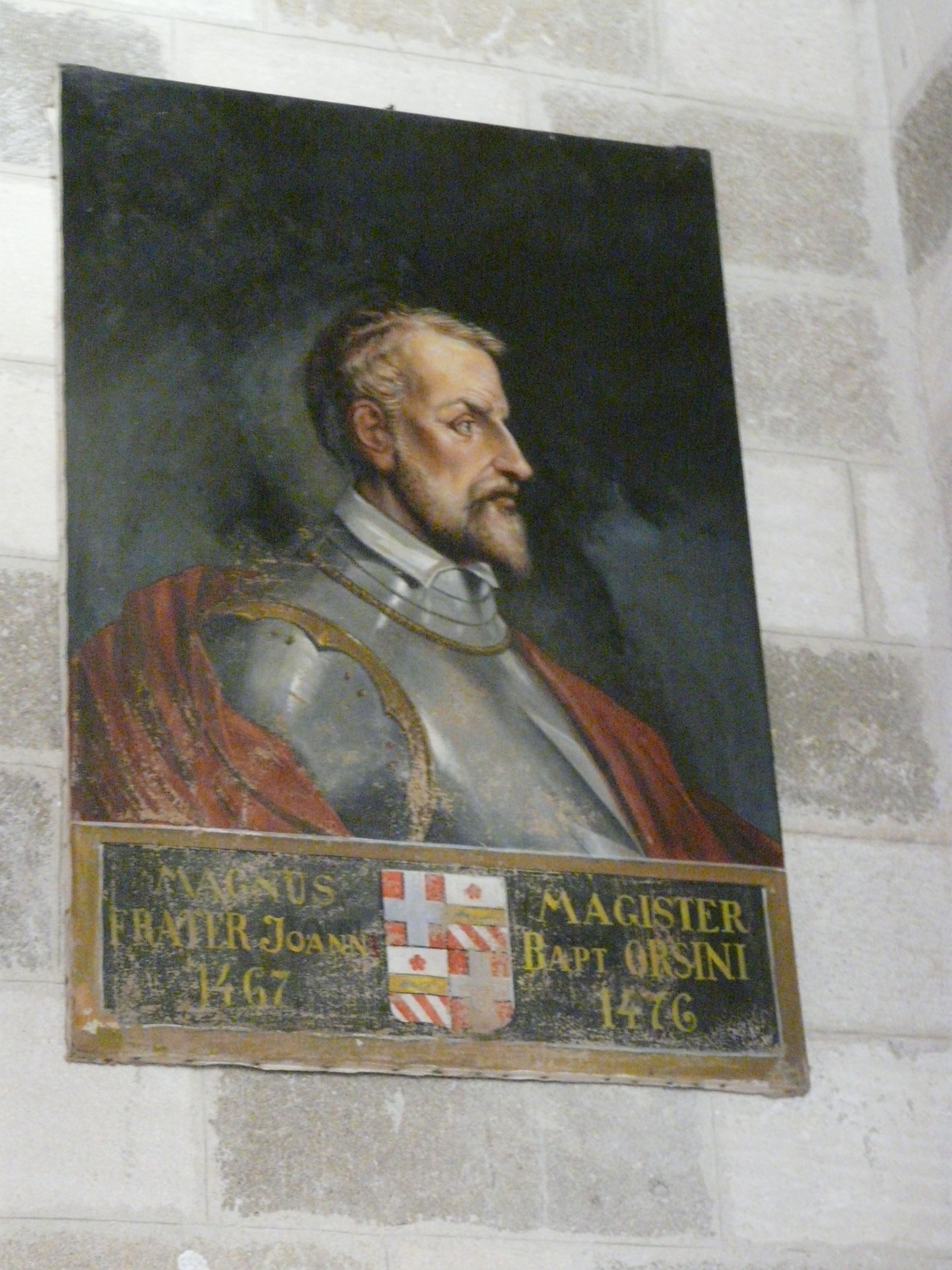 Giovanni Battista Orsini. Palace of the Grand Master of the Knights of Rhodes